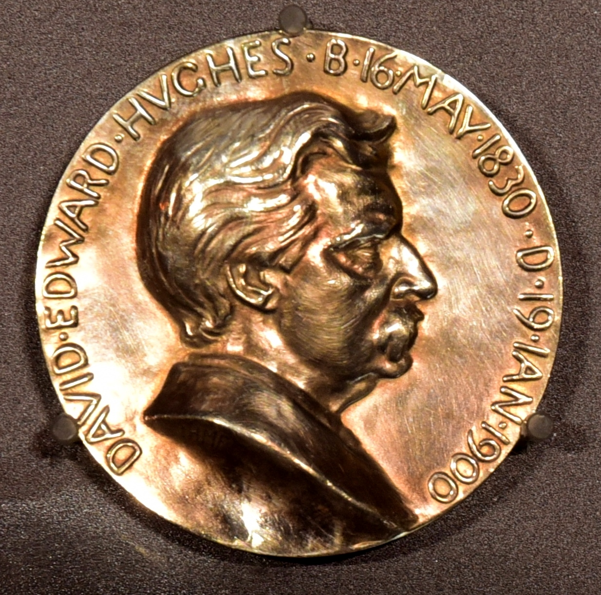 Avers of Hughes Medal